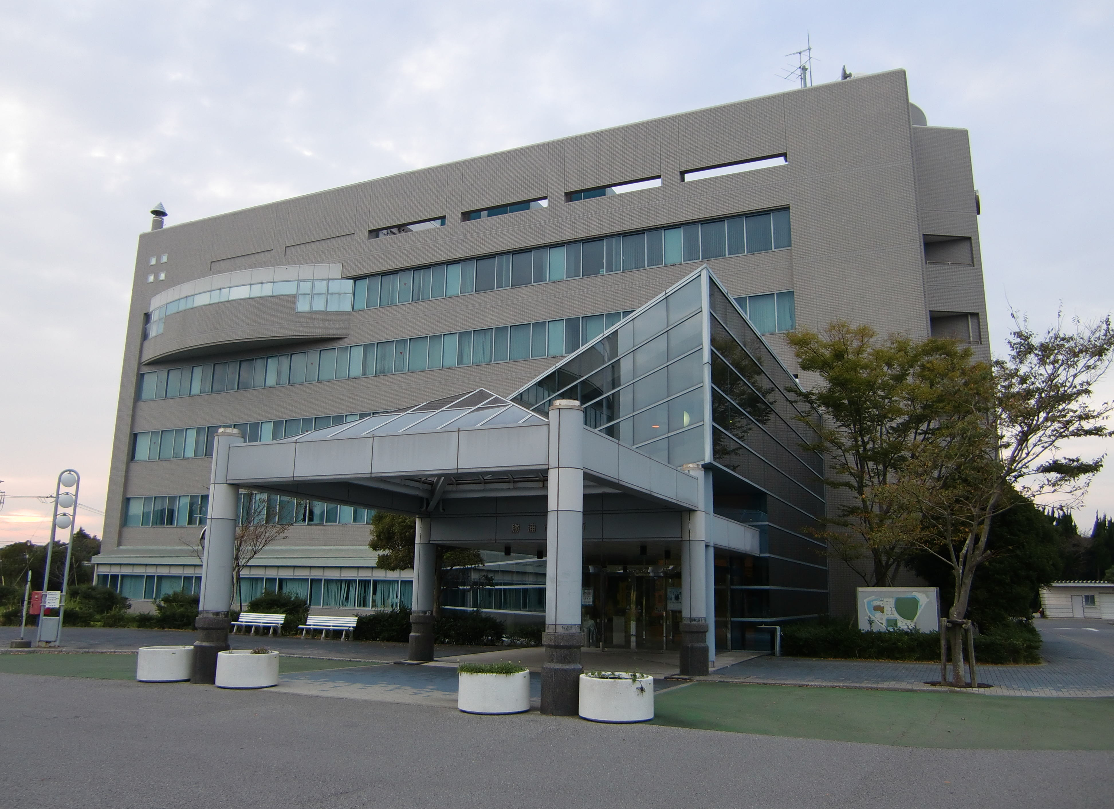 Katsuura Cityhall.Chiba-Ken,Katsuura-shi